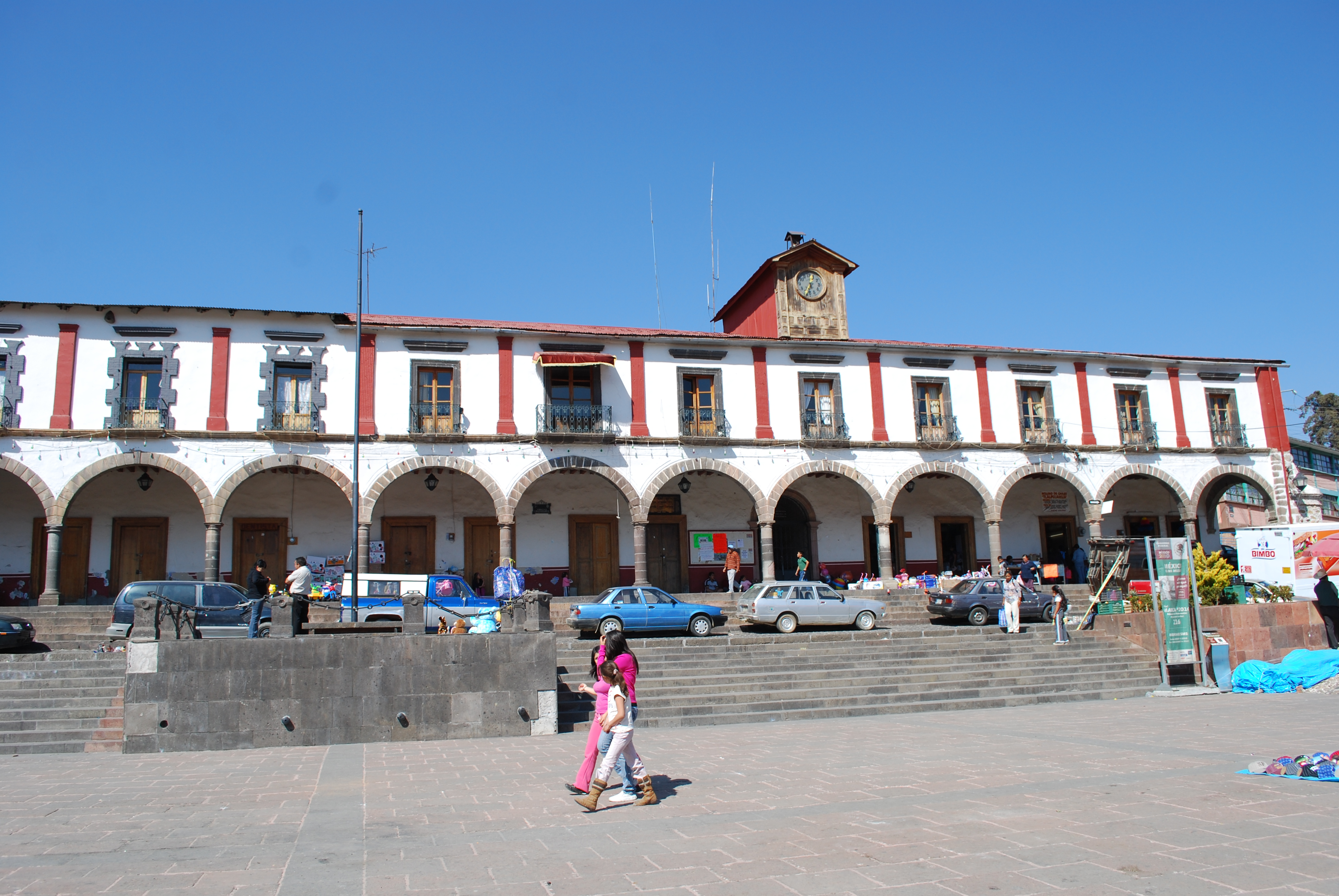 Municipal Palace in Tlalpujahua, Michoacan.